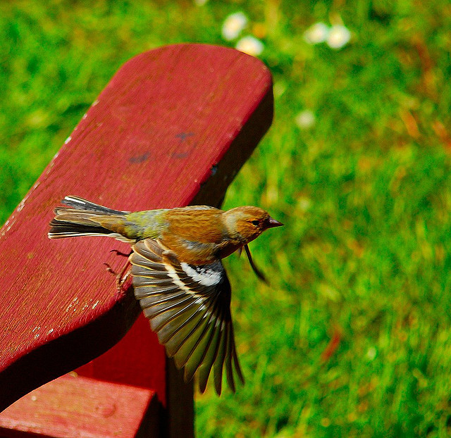 A wee bird taking flight - i didn't think I was gonna be quick enough but surprised myself and cauught it taking off! Anyone know what kind of bird it is?